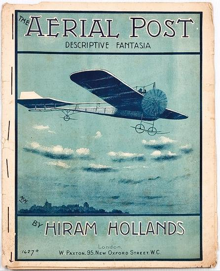 Photograph of sheet music